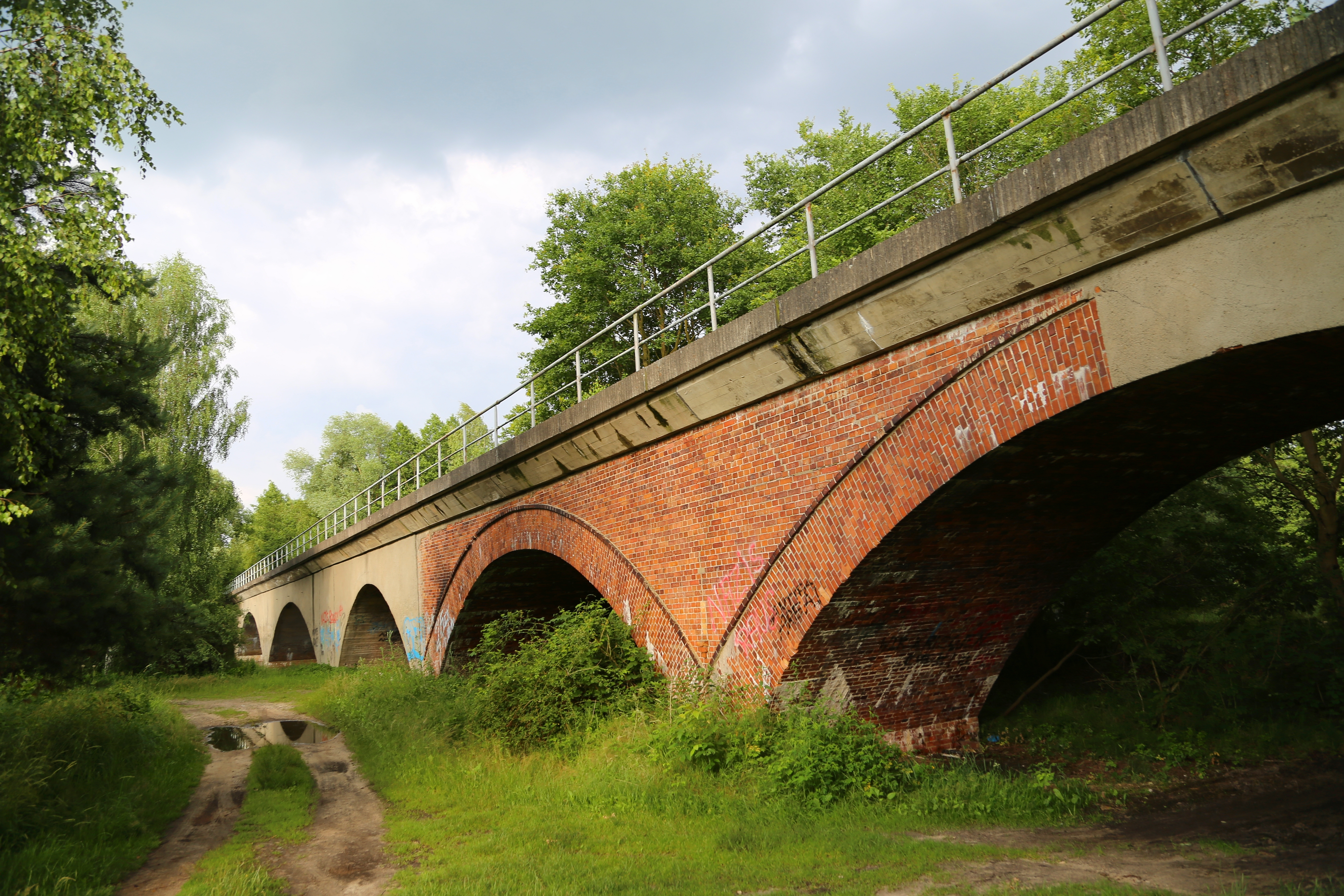 The Red Bridge (Rote Brücke), situated east of Hartmannsdorf, a borough of Lübben, Landkreis Dahme-Spreewald, Brandenburg, Germany. This Spree bridge is a listed cultural heritage monument.